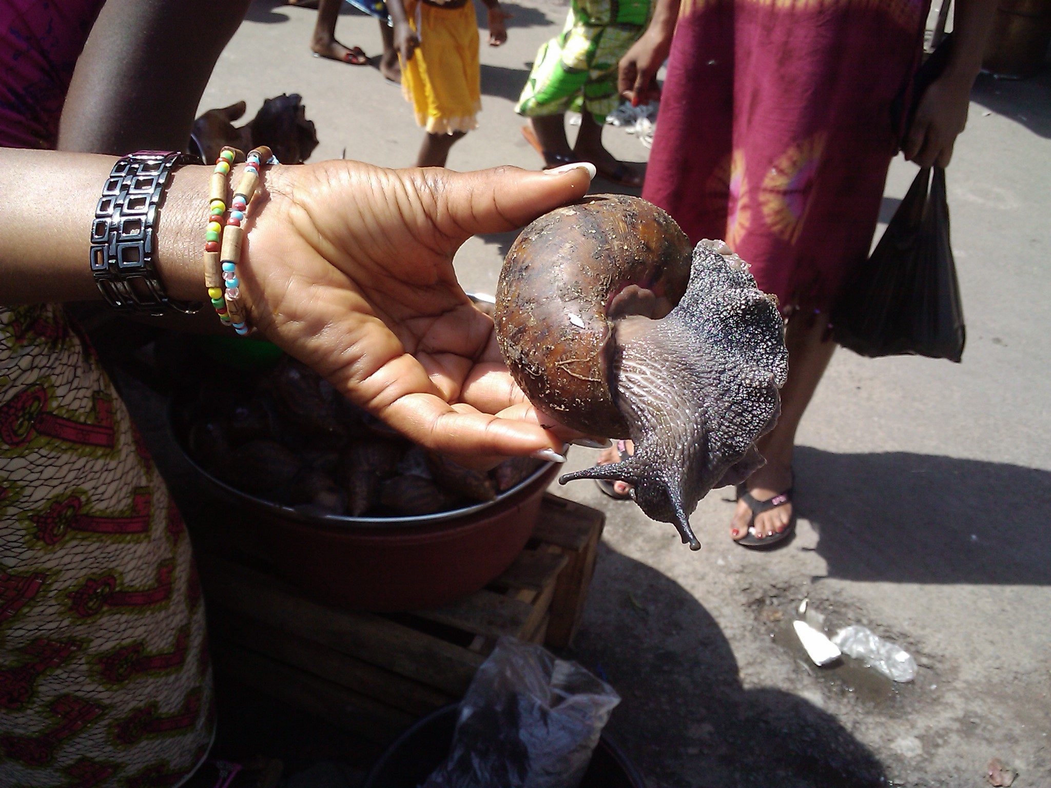 Giant snail on the market in Abidjan, Ivory Coast.